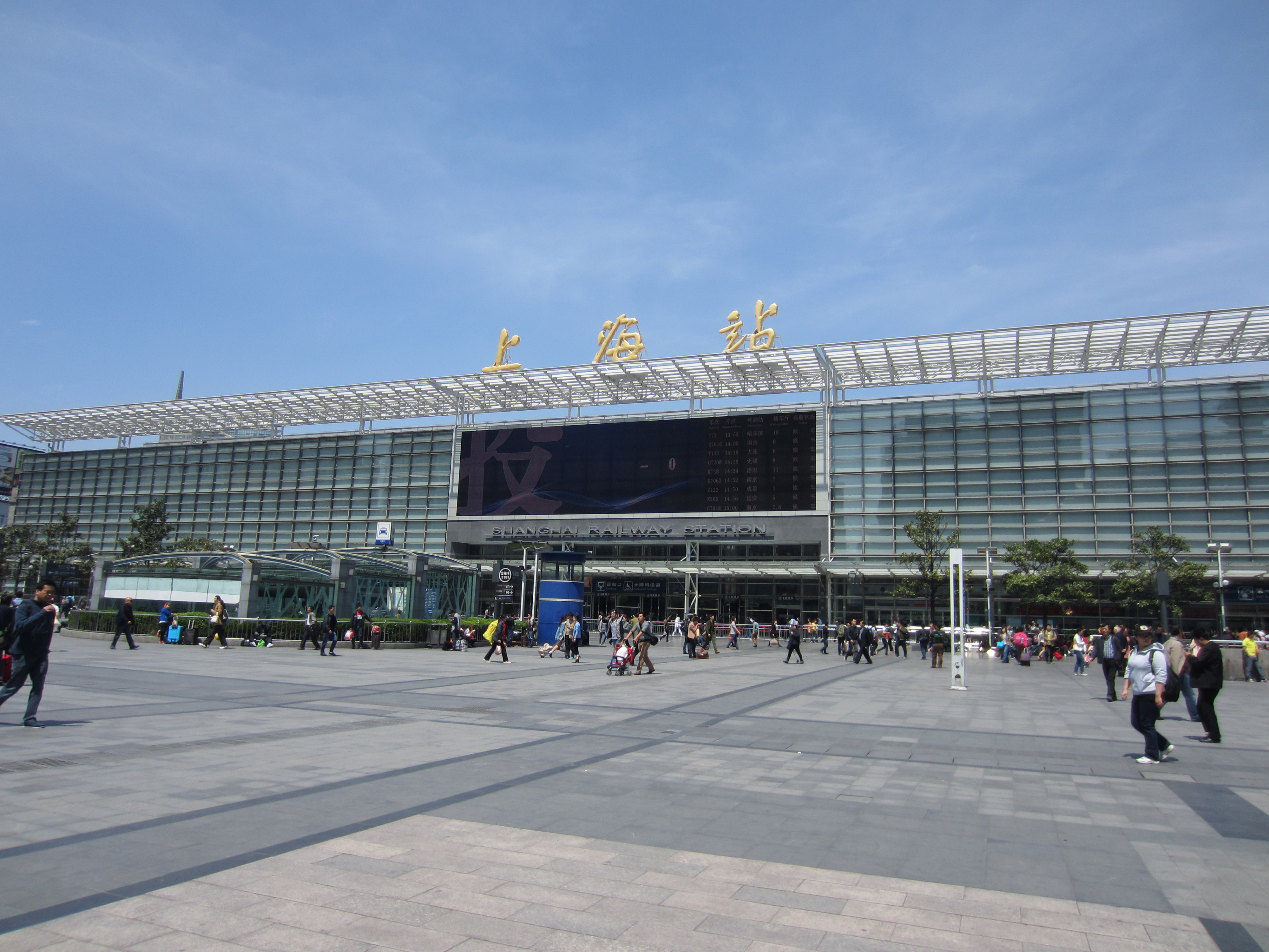 Shanghai Railway Station in 2014.